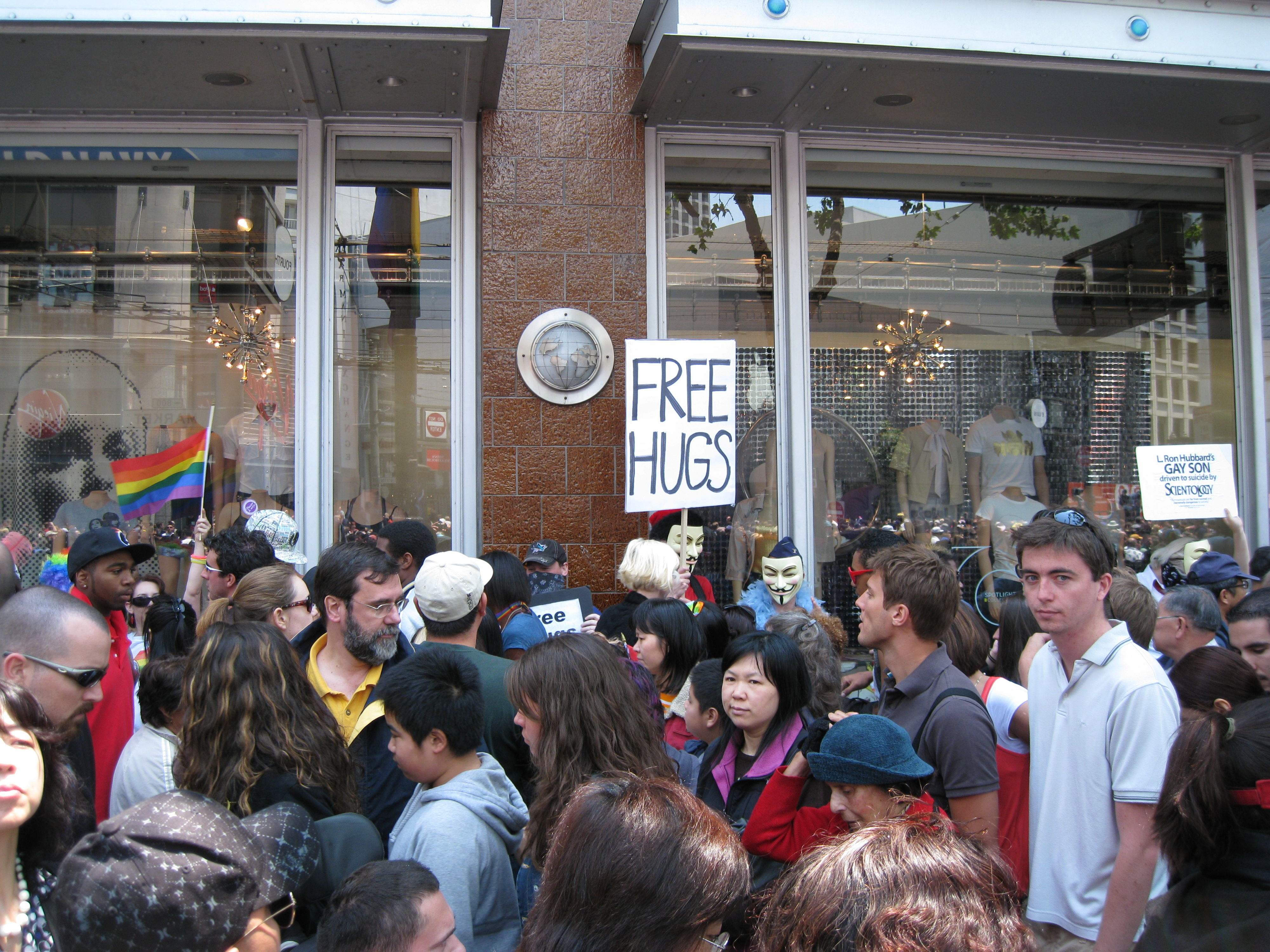 Members of Anonymous at a gay pride parade, also protesting Scientology.